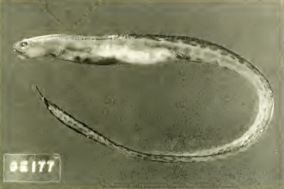 Holotype of Pholidichthys anguis